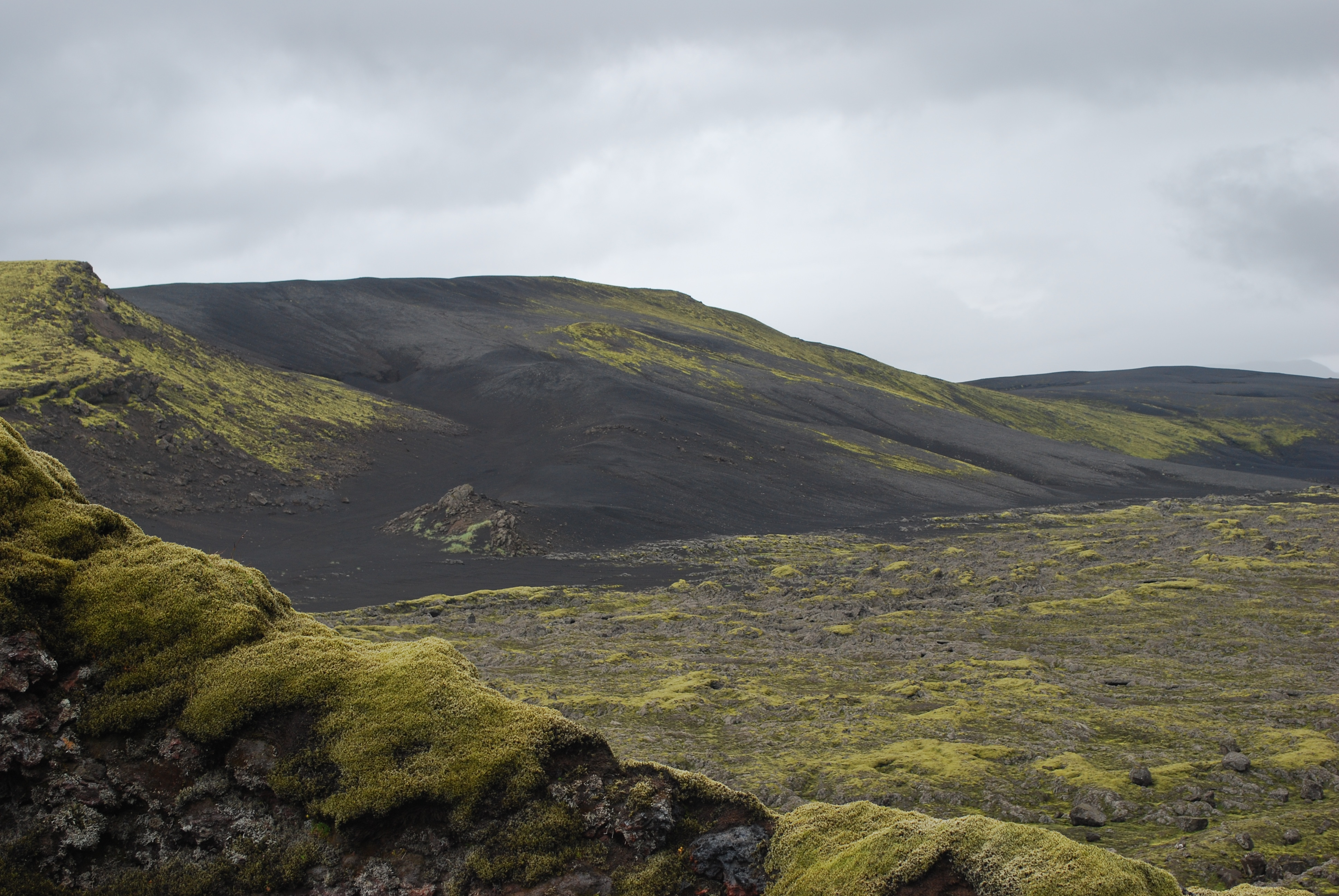 Sight to surrounding terrain of Laki volcano, Iceland